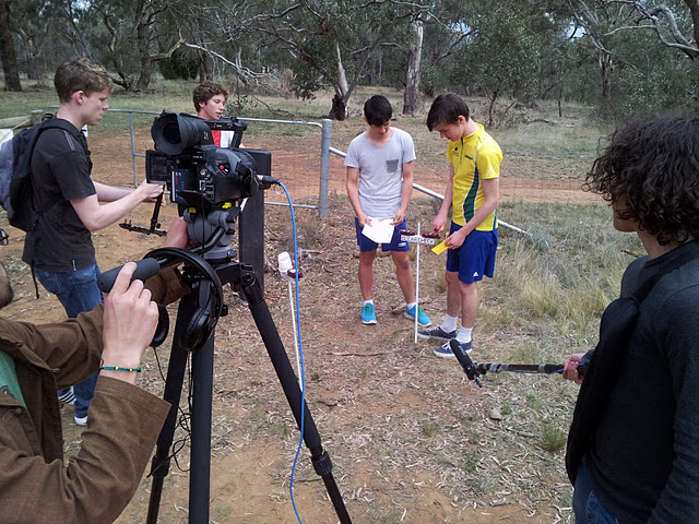 A film crew with filming an orienteering event near Canberra